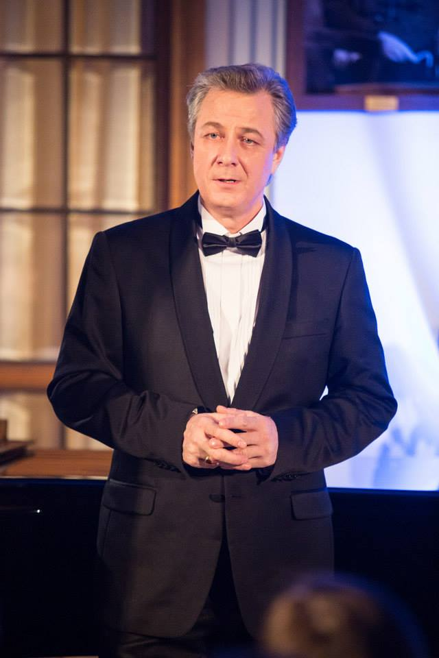 Photo from the recital by Vladimir Kudashev at the Novaya Opera Theatre